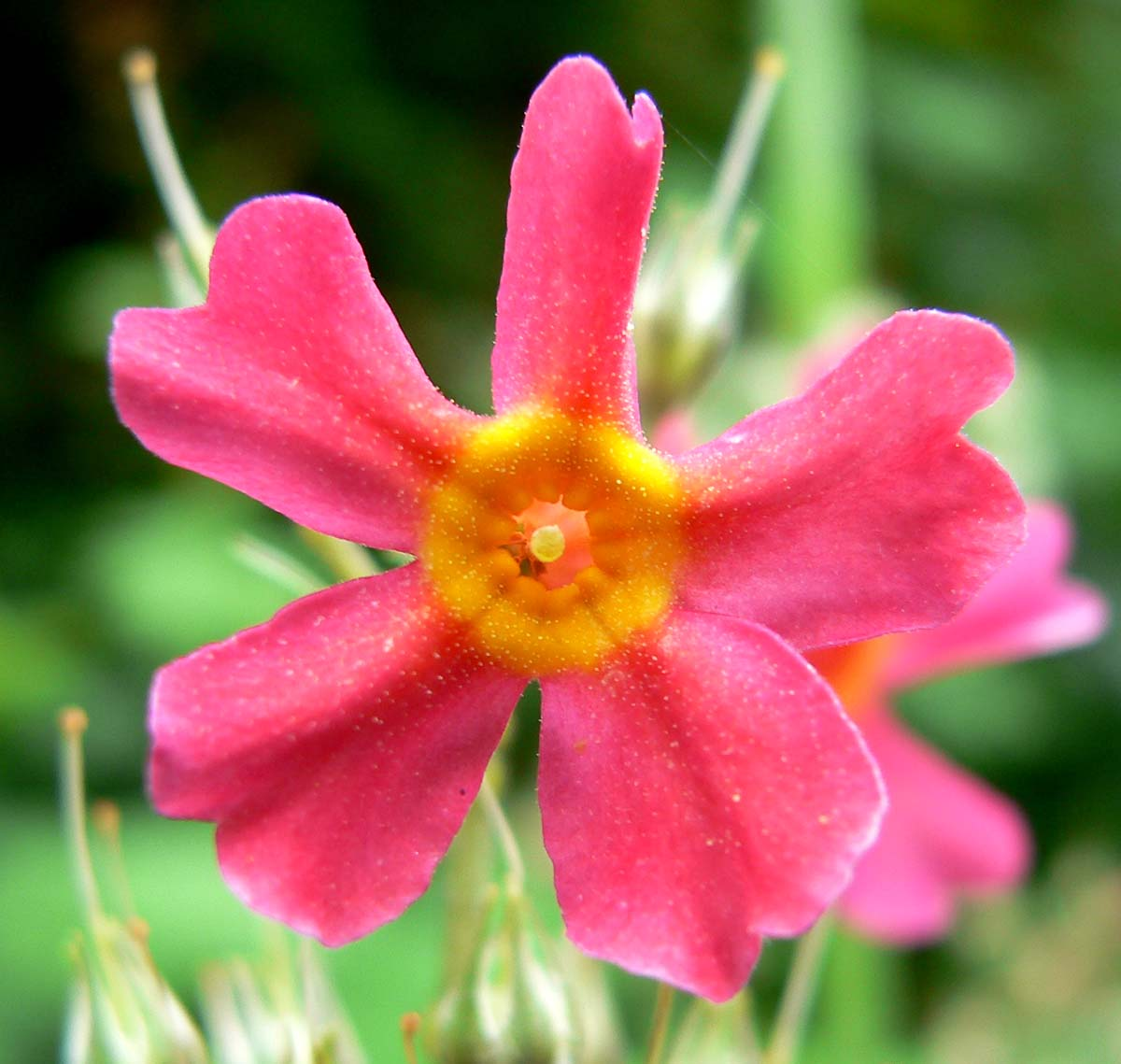 Photo of Primula mollis at the UBC Botanical Garden in Vancouver